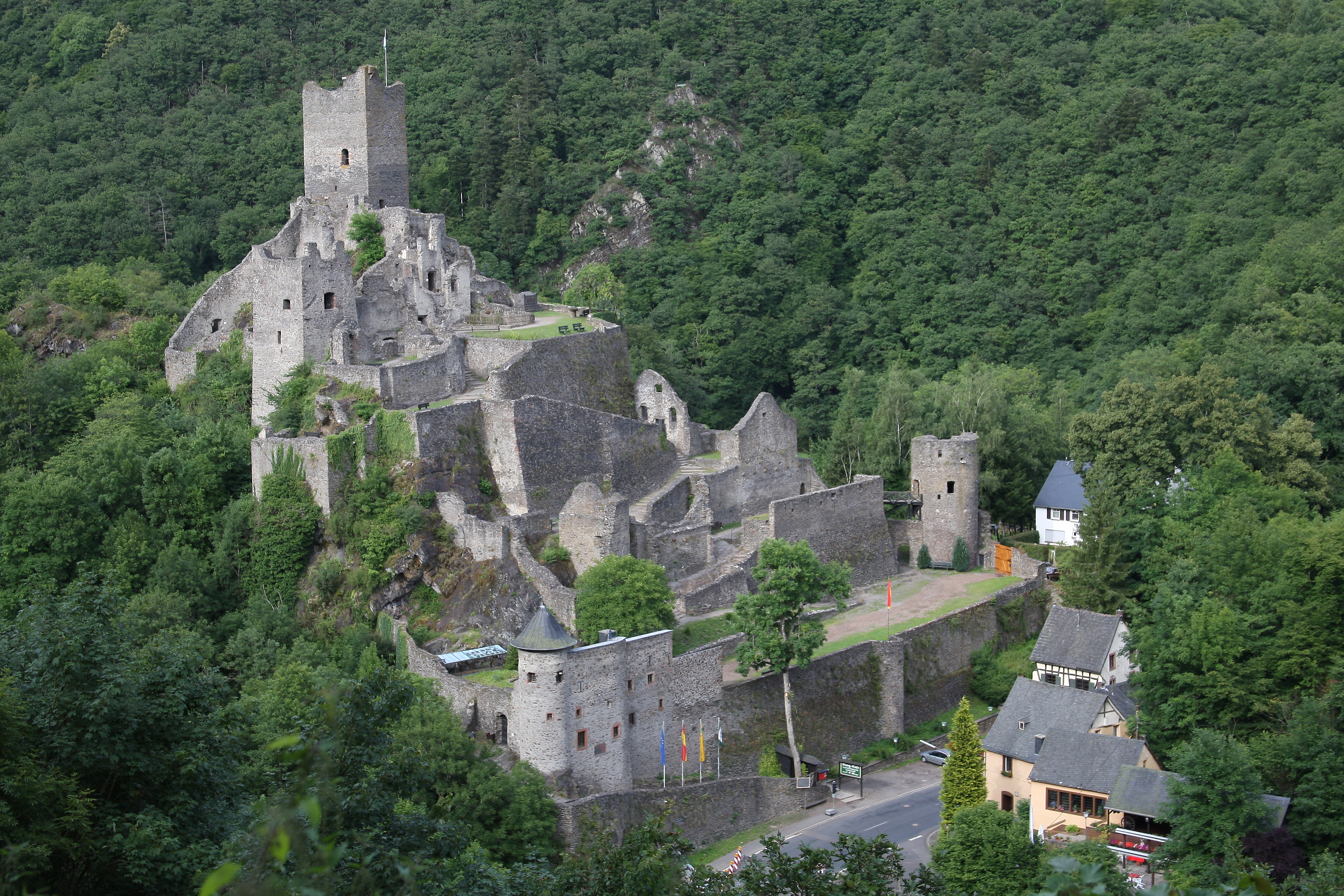 Ruin of the lower of the medival castles of Manderscheid, Rhineland-Palatinate, Germany